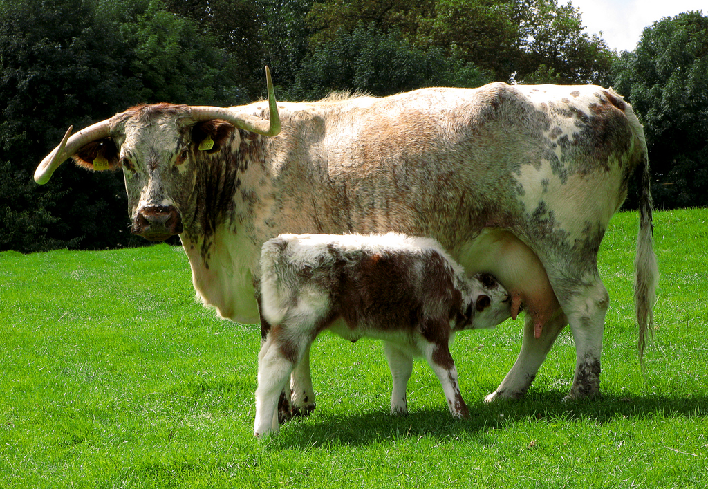 An English Longhorn cow and calf.Bân-lâm-gú: Tsi̍t tsiah Ing-kok Tn̂g-kak gû-bó kah gû-á-kiánn. 一隻英國長角牛母佮牛仔囝。